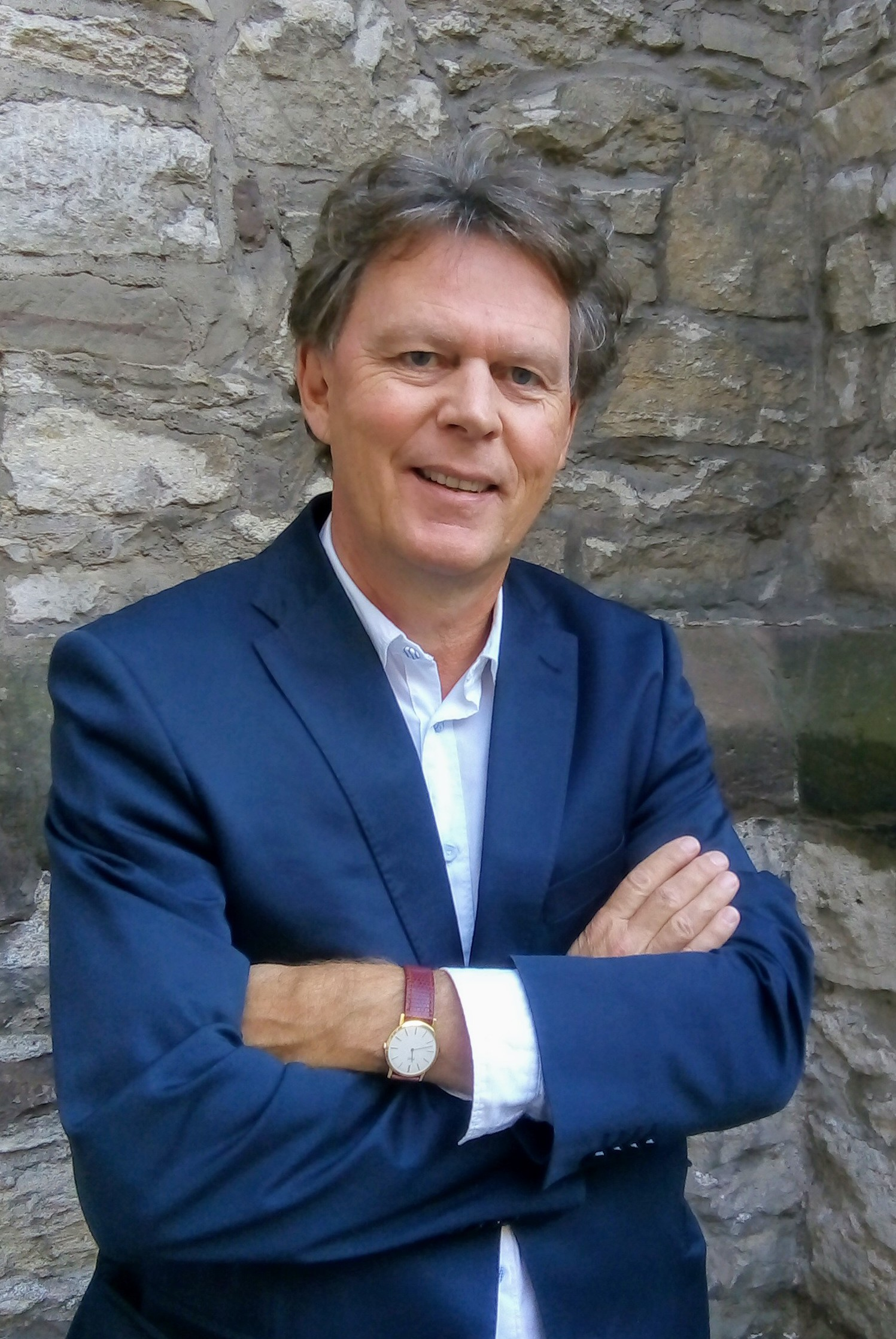 Jürgen Straub check usage